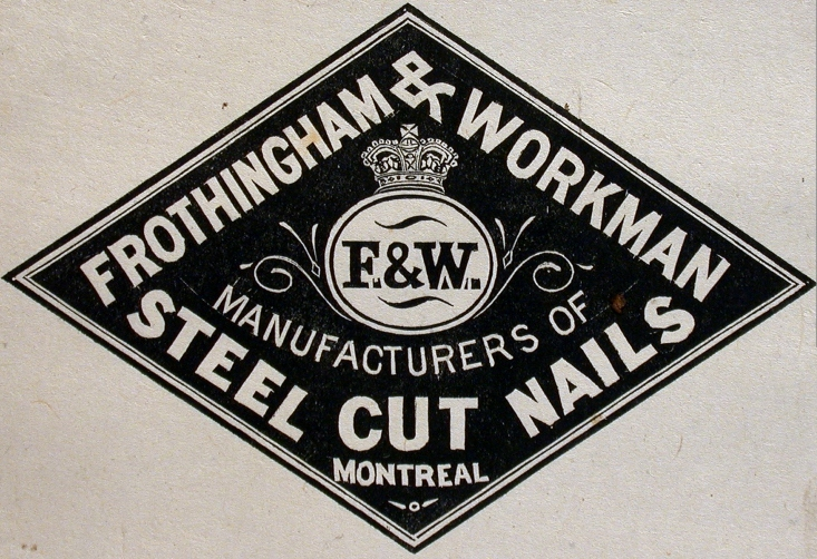 Frothingham & Workman, Steel cut nails - Ink on paper on supporting paper - Wood engraving